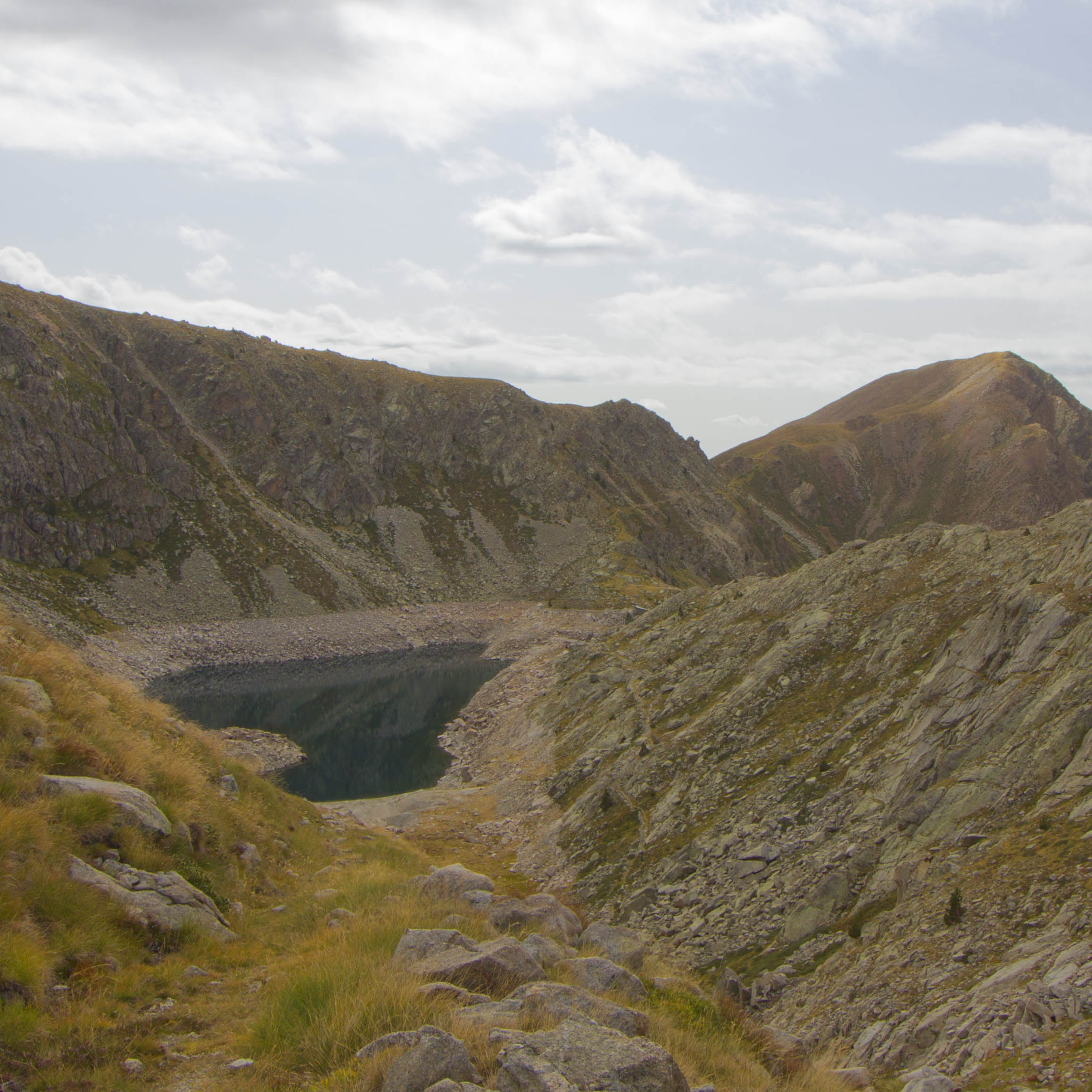 Morera lake's end